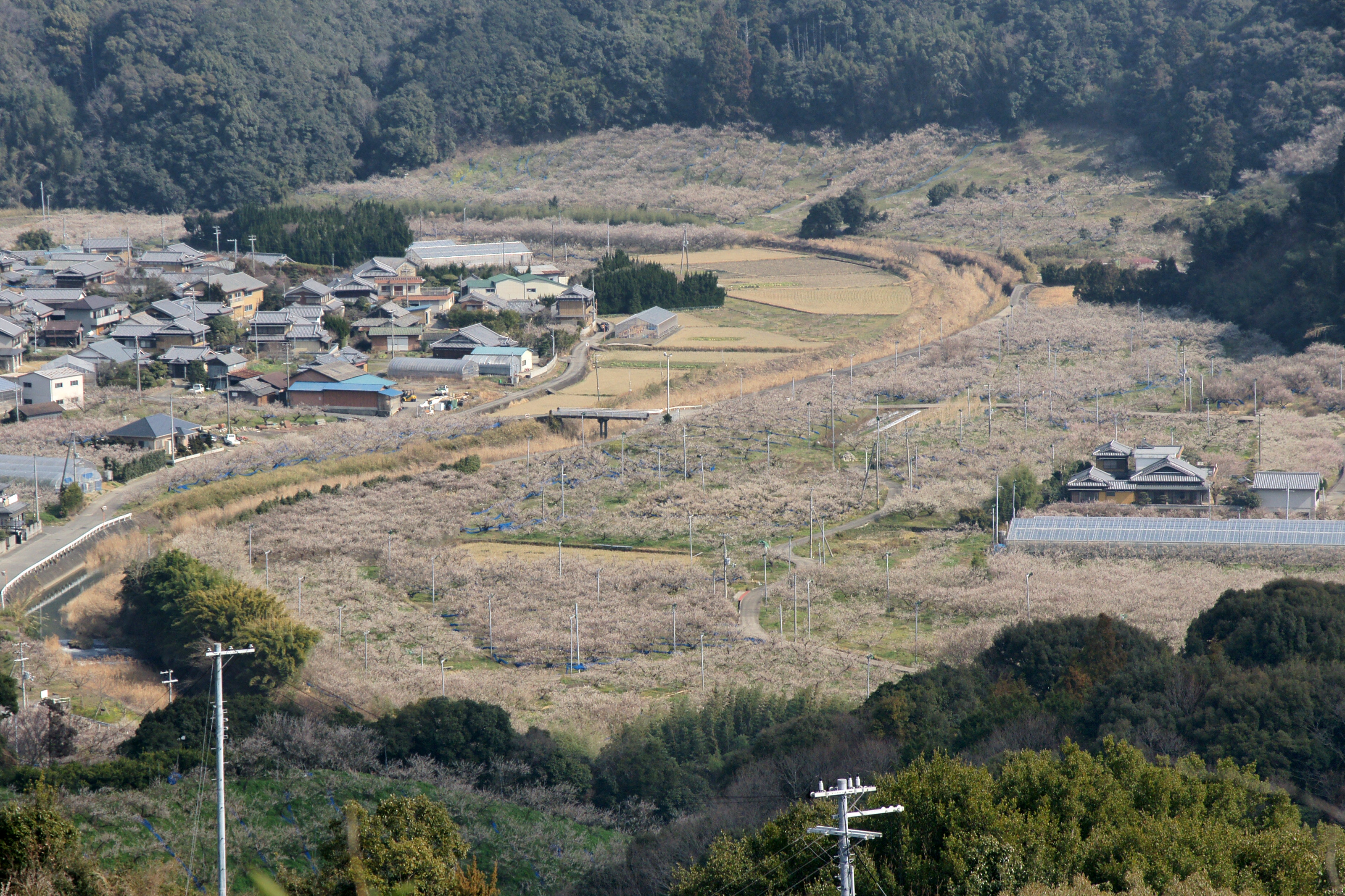 Minabe Bairin, Minabe, Wakayama prefecture, Japan